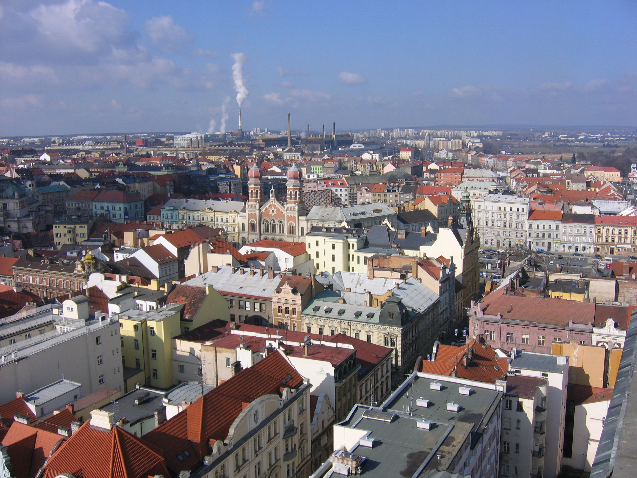 City of Plzeň, Czech Republic. Pilsen, Tschechien. View from the tower of the St. Bartholomew Church at the main square "Namesti Republiky".